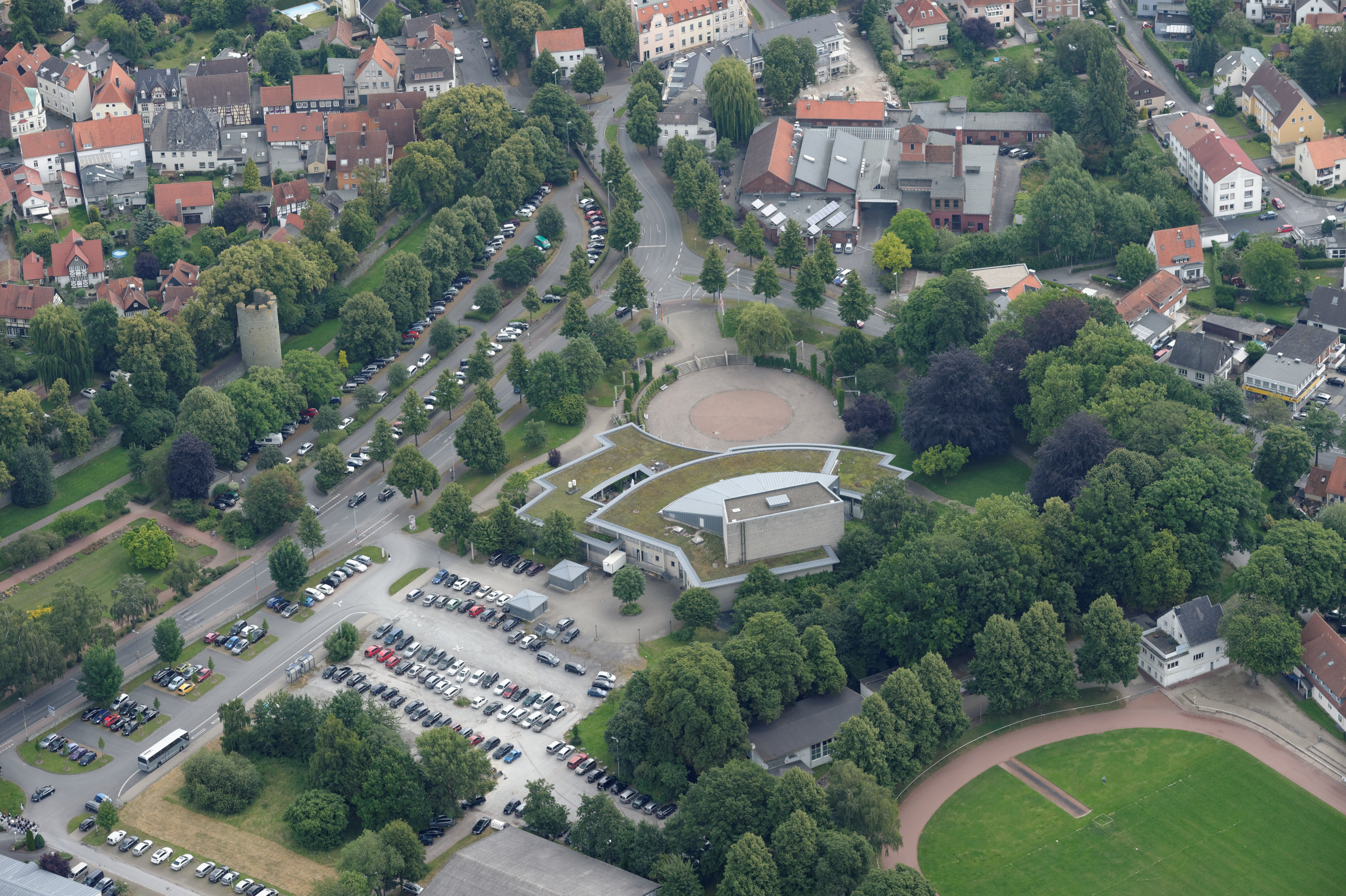 Soest: Stadthalle, Kulturhaus Alter Schlachthof und Stadtmauer mit Turm (Fotoflug Sauerland-Nord) The making of this document was supported by the Community-Budget of Wikimedia Germany.